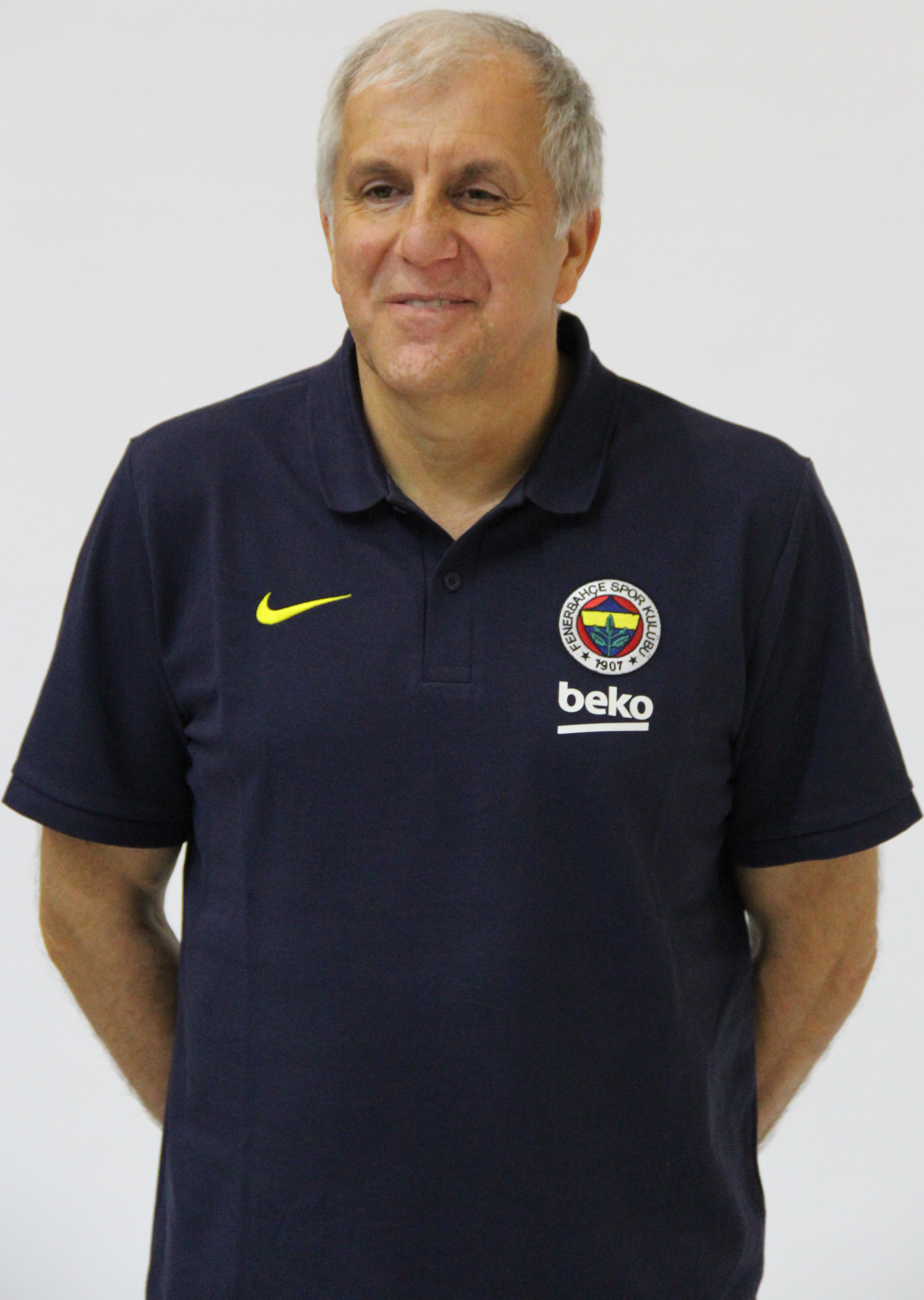 Željko Obradović Fenerbahçe Basketball 20190923